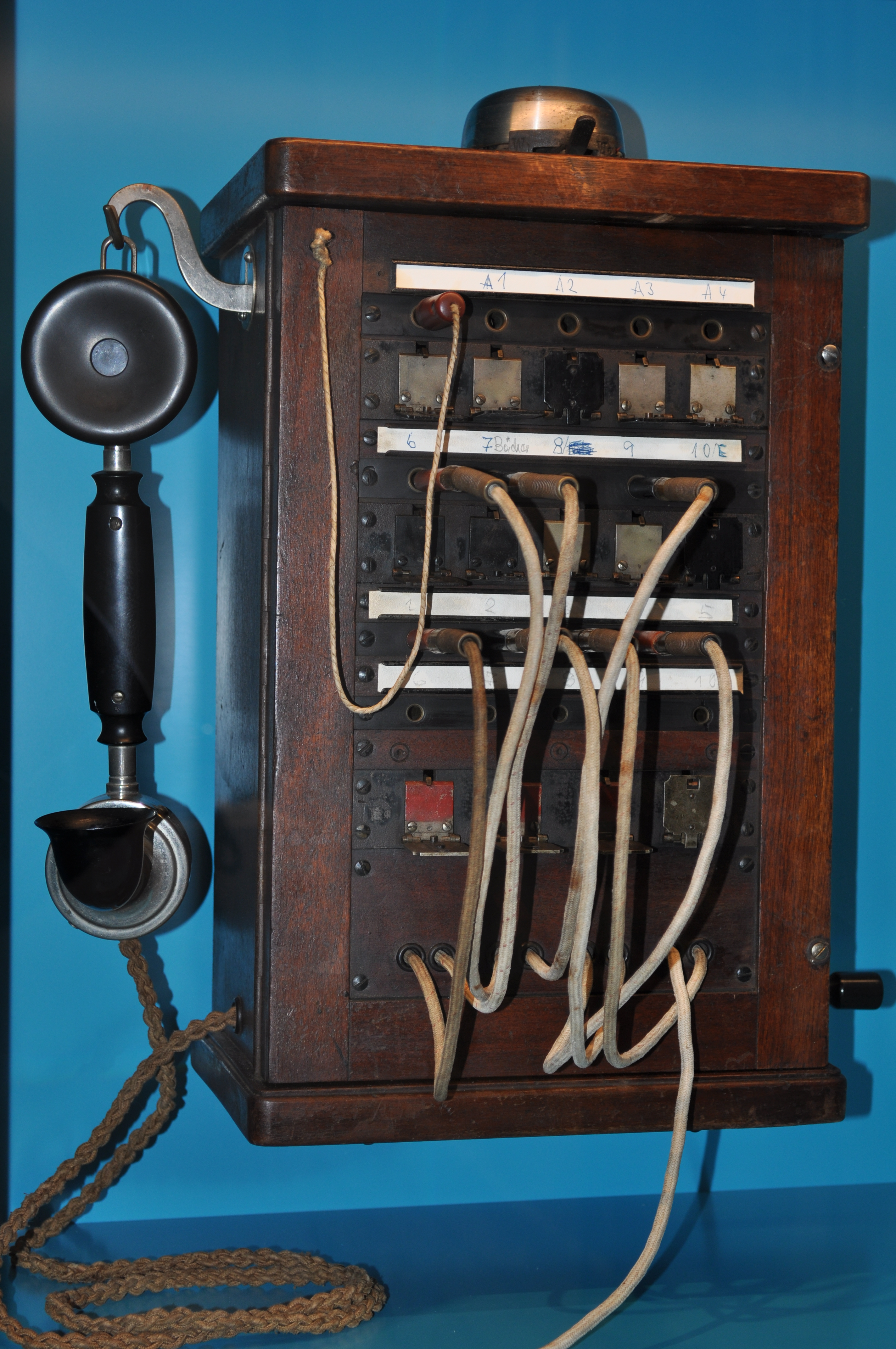 Kleiner Klappenschrank fuer die Handvermittlung 1919